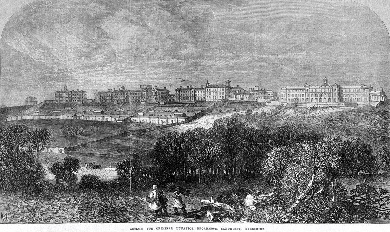 Asylum for Criminal Lunatics, Broadmoor, Sandhurst, Berkshire. Printed in Illustrated London News 1867.